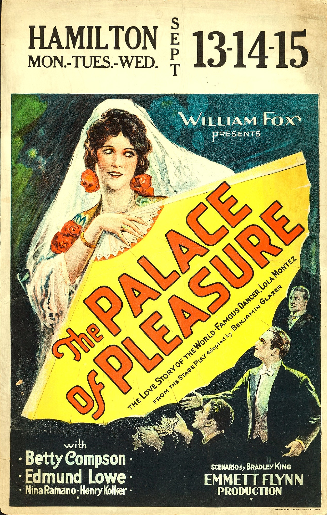 Window poster for the 1926 film The Palace of Pleasure!. There are no copyright marks on the item. At bottom right is Made in USA by the H. C. Miner Litho Co NY 26644.